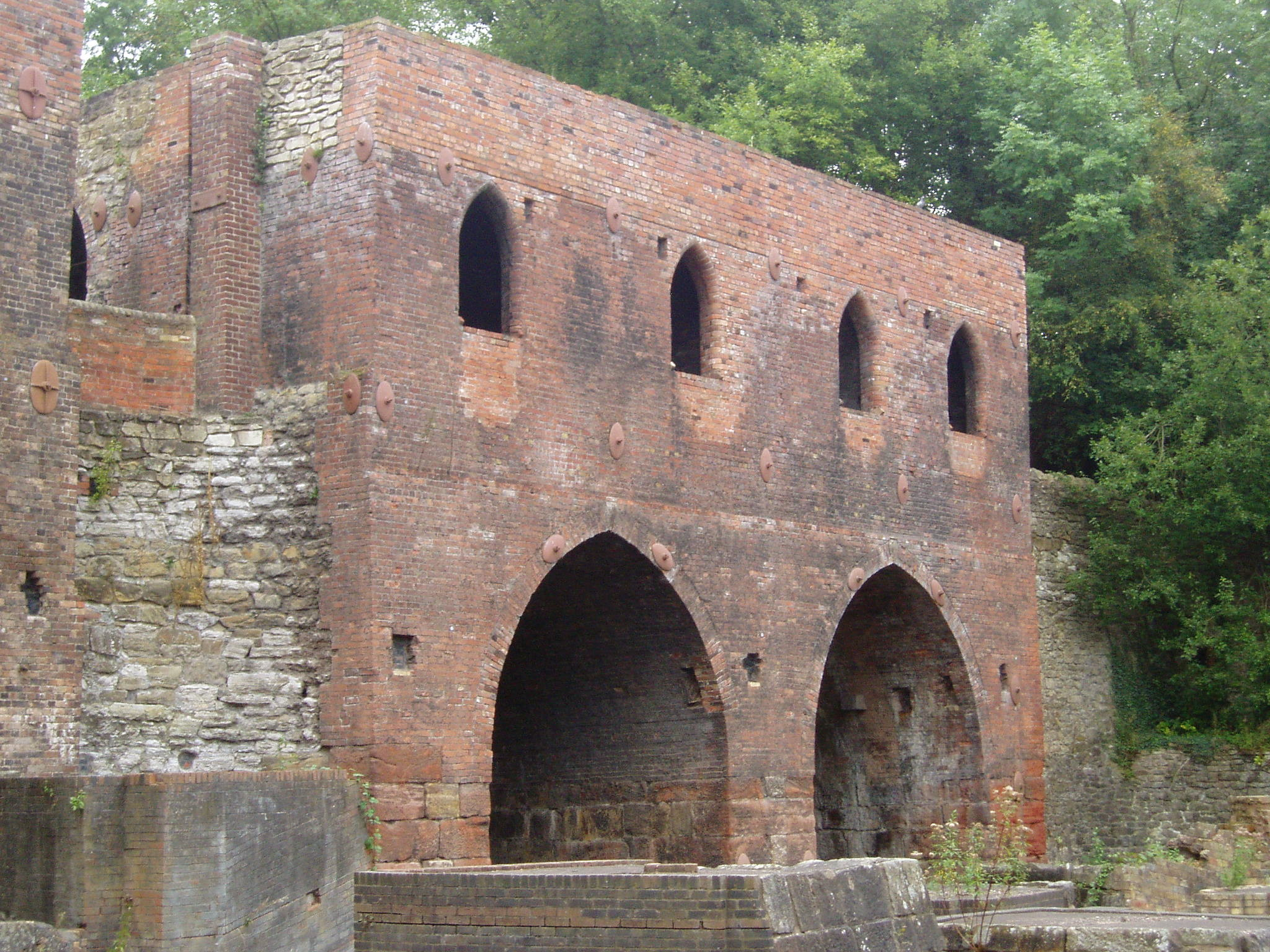 Photo taken of the blast furnaces at Blists Hill, Shropshire, England, taken at 16:26 on Thursday 16 September 2004 by Ostrich